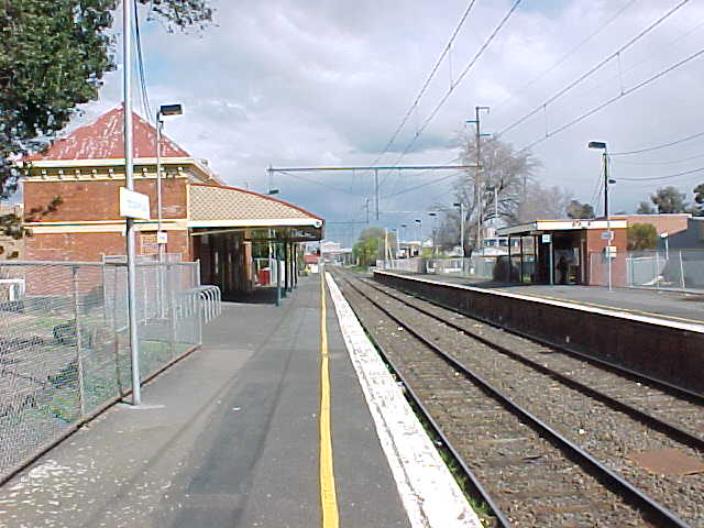 Brunswick railway station